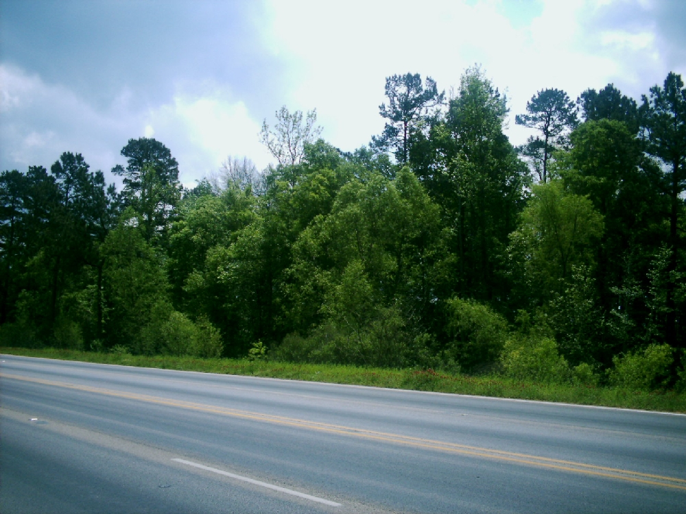 The Piney Woods — viewed from Loop 390 outside of Marshall, in Harrison County, Northeast Texas.